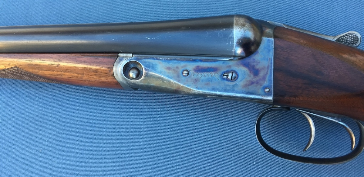 Left side receiver